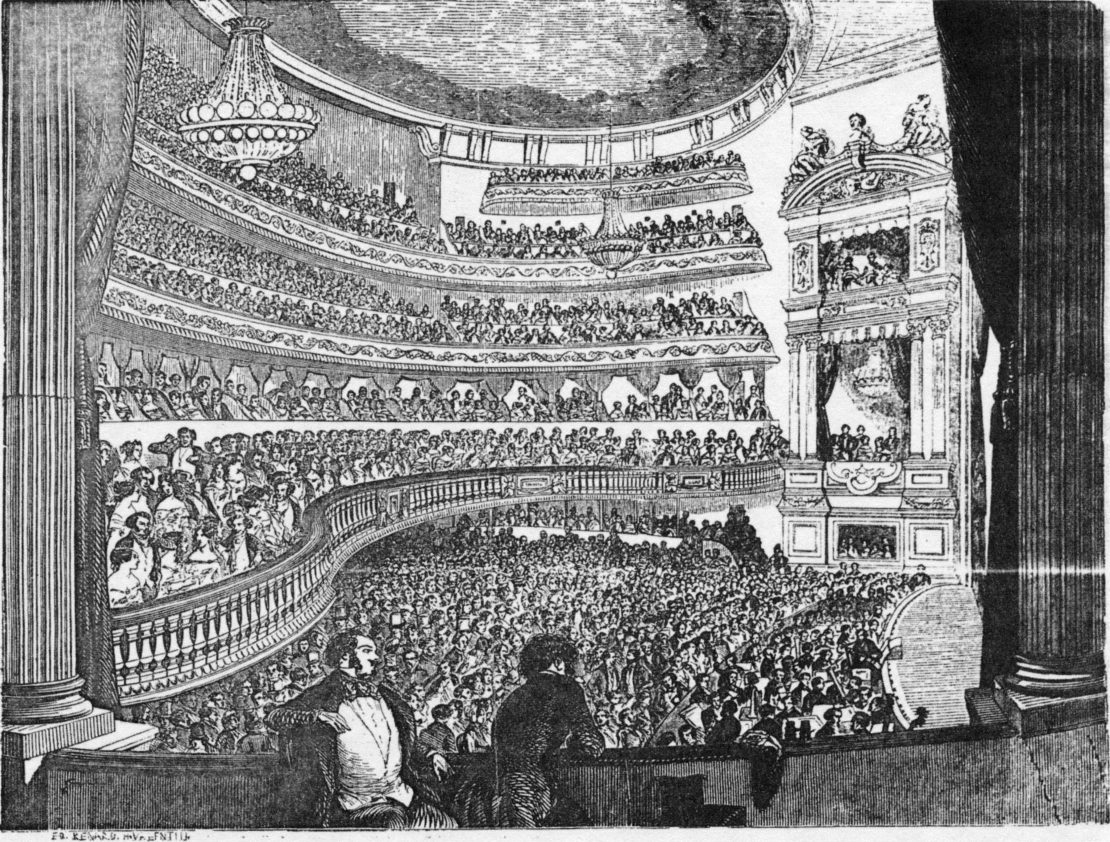 The auditorium of the Théâtre Historique during a performance